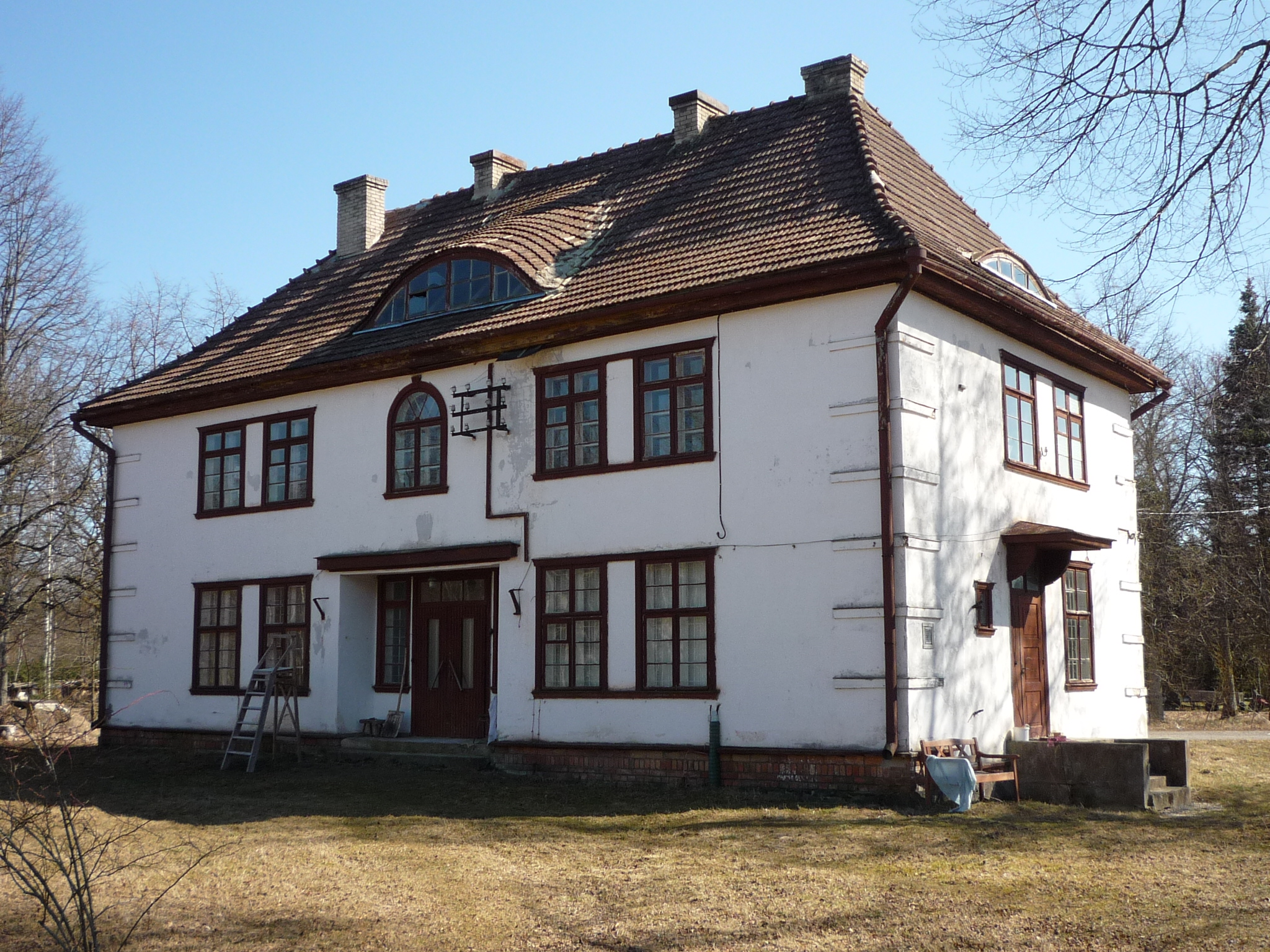 Karuse old railway station. Hanila parish, Lääne county, Estonia.